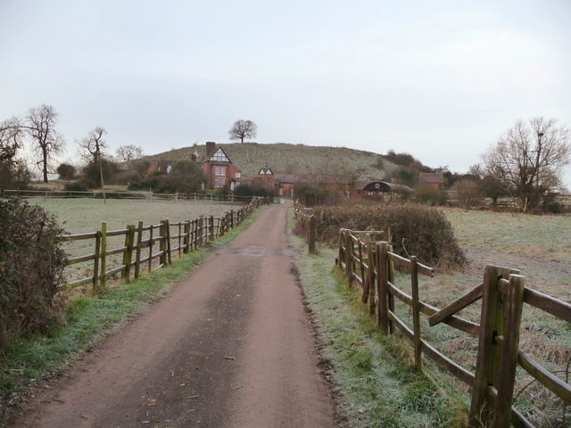 Crookbarrow Hill, Whittington, Worcester